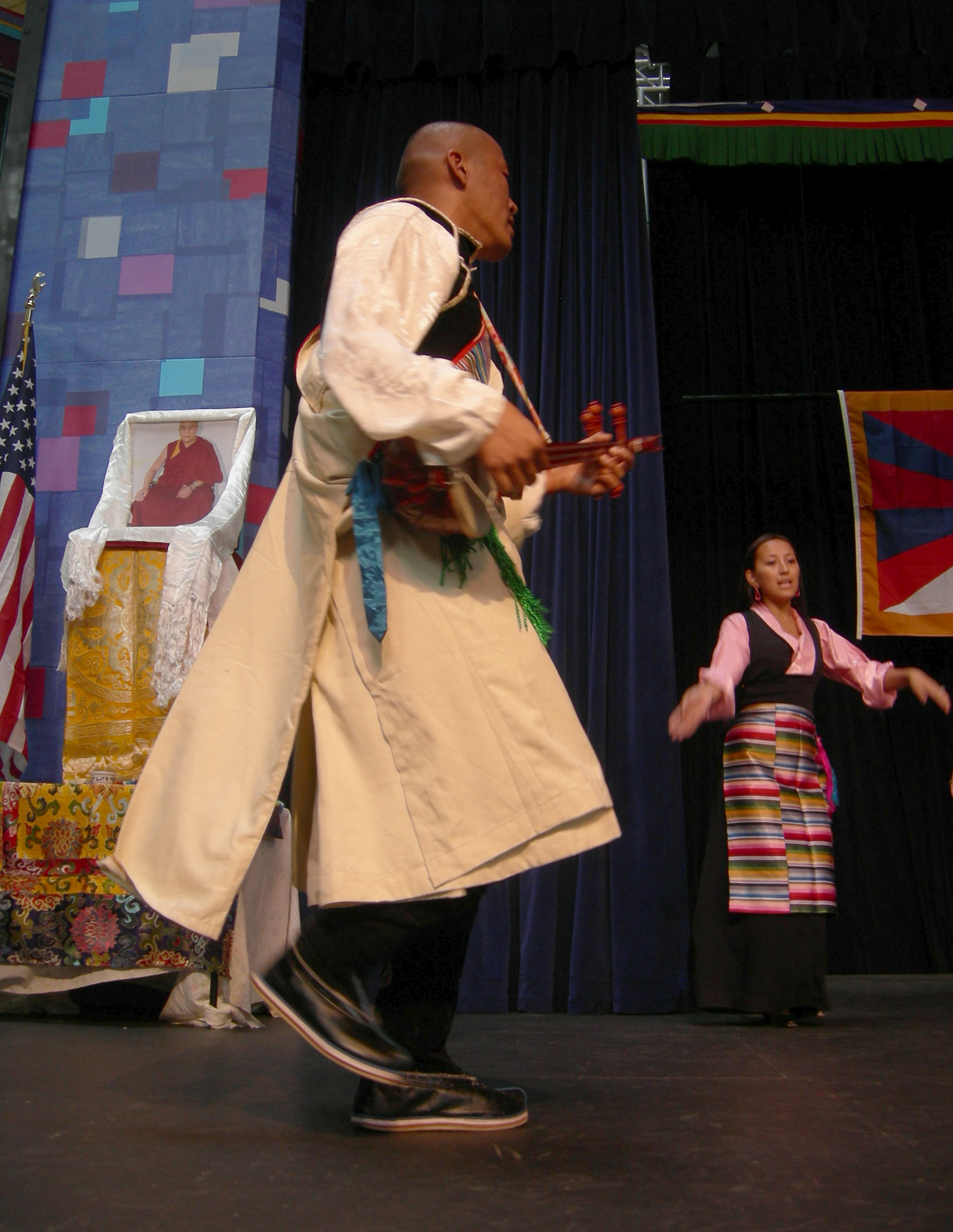 Tibetan dancers and musicians on Center House stage, Seattle Center, Seattle, Washington as part of TibetFest (part of the Festál series of festivals at Seattle Center). This picture was cropped and sharpened.